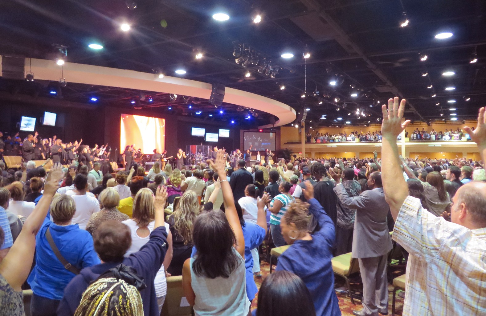 Cornerstone Church Toledo worship